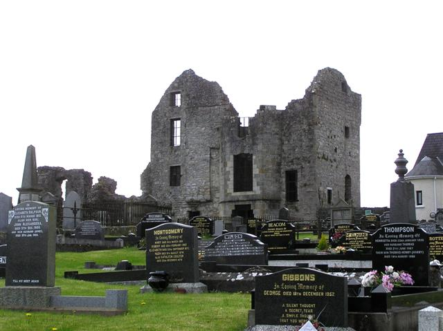 Castle Balfour, Lisnaskea It is located beside the Church of Ireland - more at Note some typical County Fermanagh names on the headstones like Balfour, Montgomery, Johnston, Bryans, Carlisle, Beacom, Gibbons, Harvey, Douglas, McIlwaine, Thompson and Kernaghan